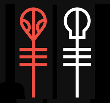 skeleton clique logo tyler and josh